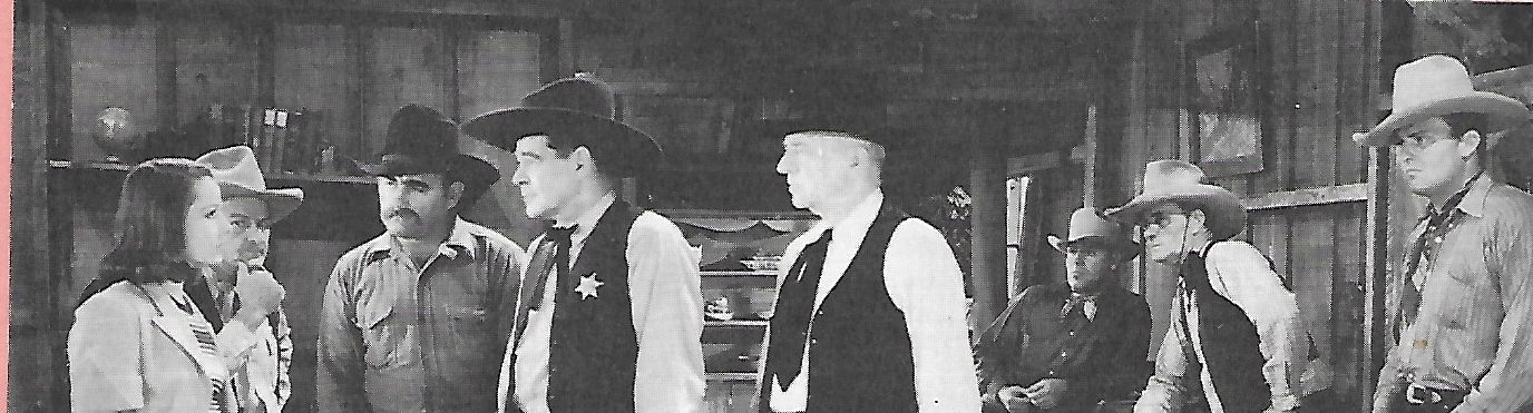 Louise Brooks, John Beach, Curley Dresden, Frank LaRue and Henry Otho in Overland Stage Raiders (1938)